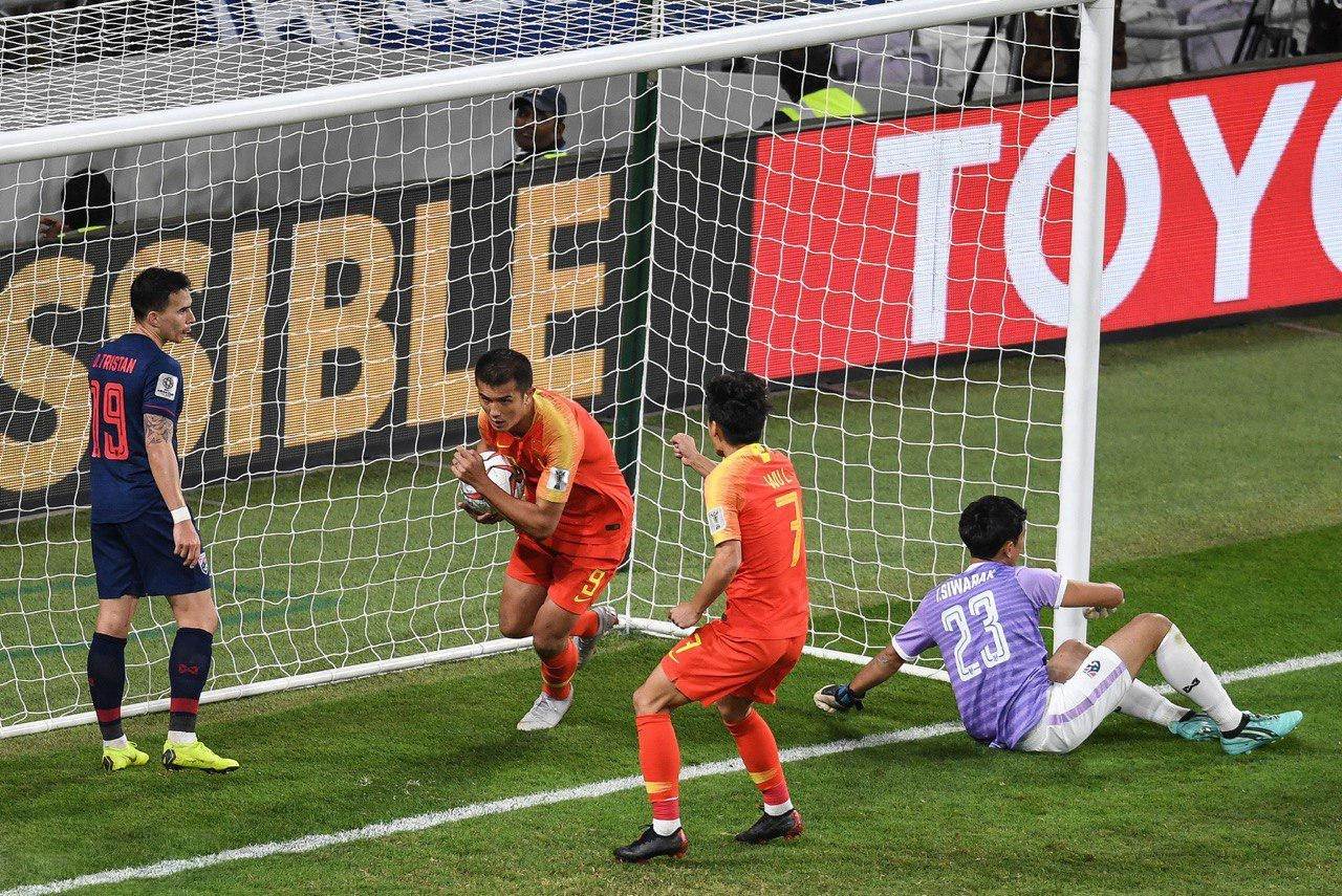 Thailand & China PR Round of 16, 2019 AFC Asian Cup